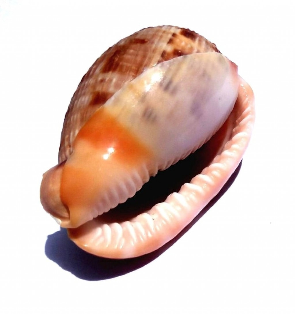 The seashell of the Cassidae mollusk Cypraecassis testiculus (Linnaeus, 1758)[1] (underside) collected in northeast Brazil; distributed in the shallow waters from Florida to Brazil, Atlantic islands to Western Africa. ABBOTT, R. Tucker; DANCE, S. Peter (1982). Compendium of Seashells. A color Guide to More than 4.200 of the World's Marine Shells. New York: E. P. Dutton. p. 111. 412 pp. ISBN 0-525-93269-0